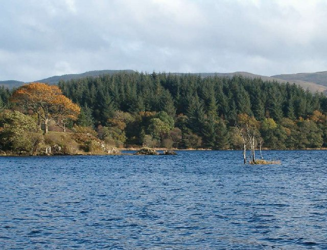 Crannog at Inverliever, Loch Awe, Argyll. The crannog is the small island in the middle distance on the right of the photograph. The trees in the background are on Inverliever Island [NM8904].